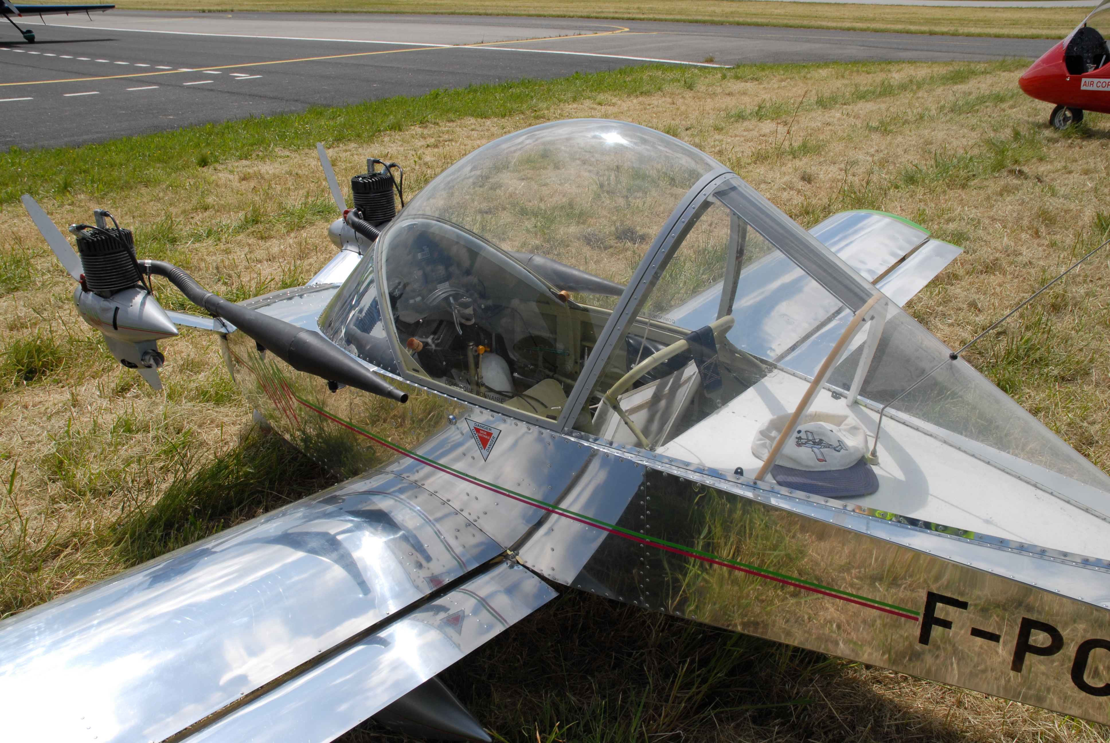 Colomban MC-15 "Cri-cri"Manufacturer(homebuilt)ModelColomban MC-15 "Cri-cri"TypeaerobaticsCharacteristicsvery light, twin-engined, kitplane, smallest twin-engined aircraft in the worldRegistration IDF-PCLFOwnerBonnaire Dominique, Jean MarieBased inSt Pierre d'Oléron